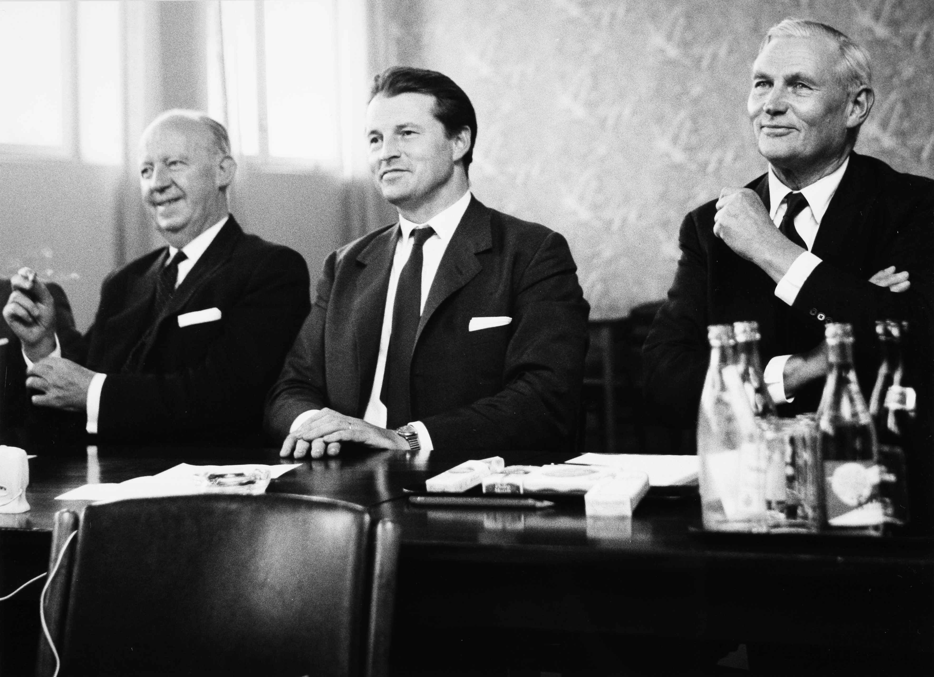 SAS Board of directors 1961-1962. From left unknowm, President Curt Nicolin, Direktor Marcus Wallenberg.